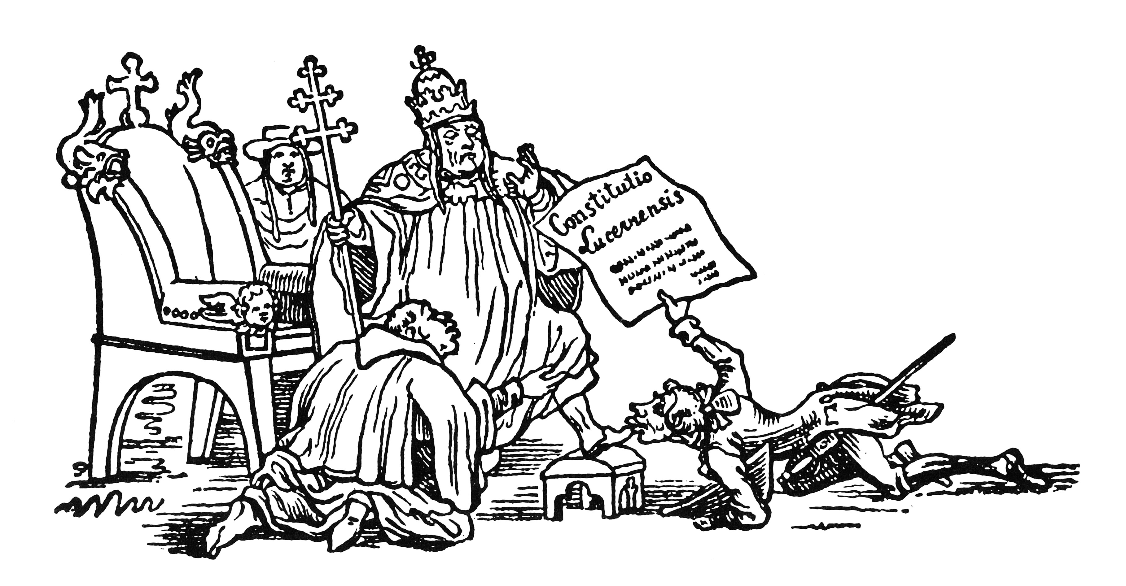 "The writing of Lucerne's constitution": Cartoon by Martin Distely satirizing the Conservative-Ultramontanist bent of Lucerne's Restoration-era constitution.